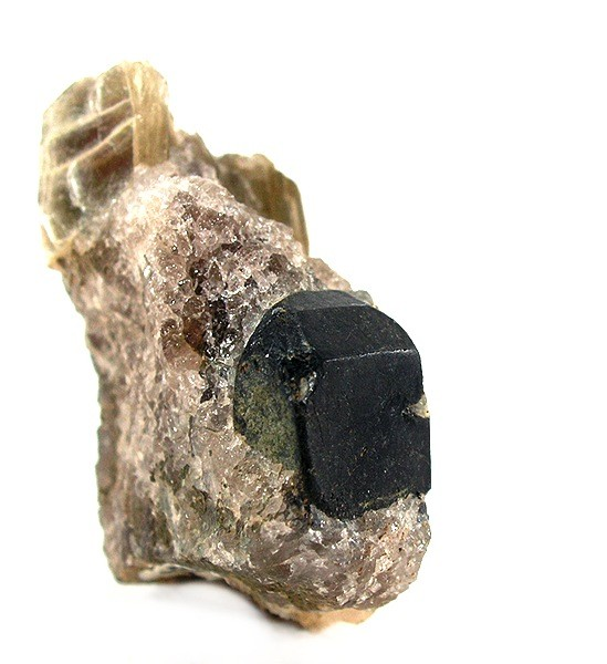 Triphylite Locality: G. E. Smith Quarry (Chandler Mills Quarry), Newport, Sullivan County, New Hampshire, USA (Locality at ) An exceptionally sharp crystal of this species from an East Coast classic locality, the crystal measuring 1.5 x 1 x 0.6 cm 3.6 x 2.6 x 1.8 cm